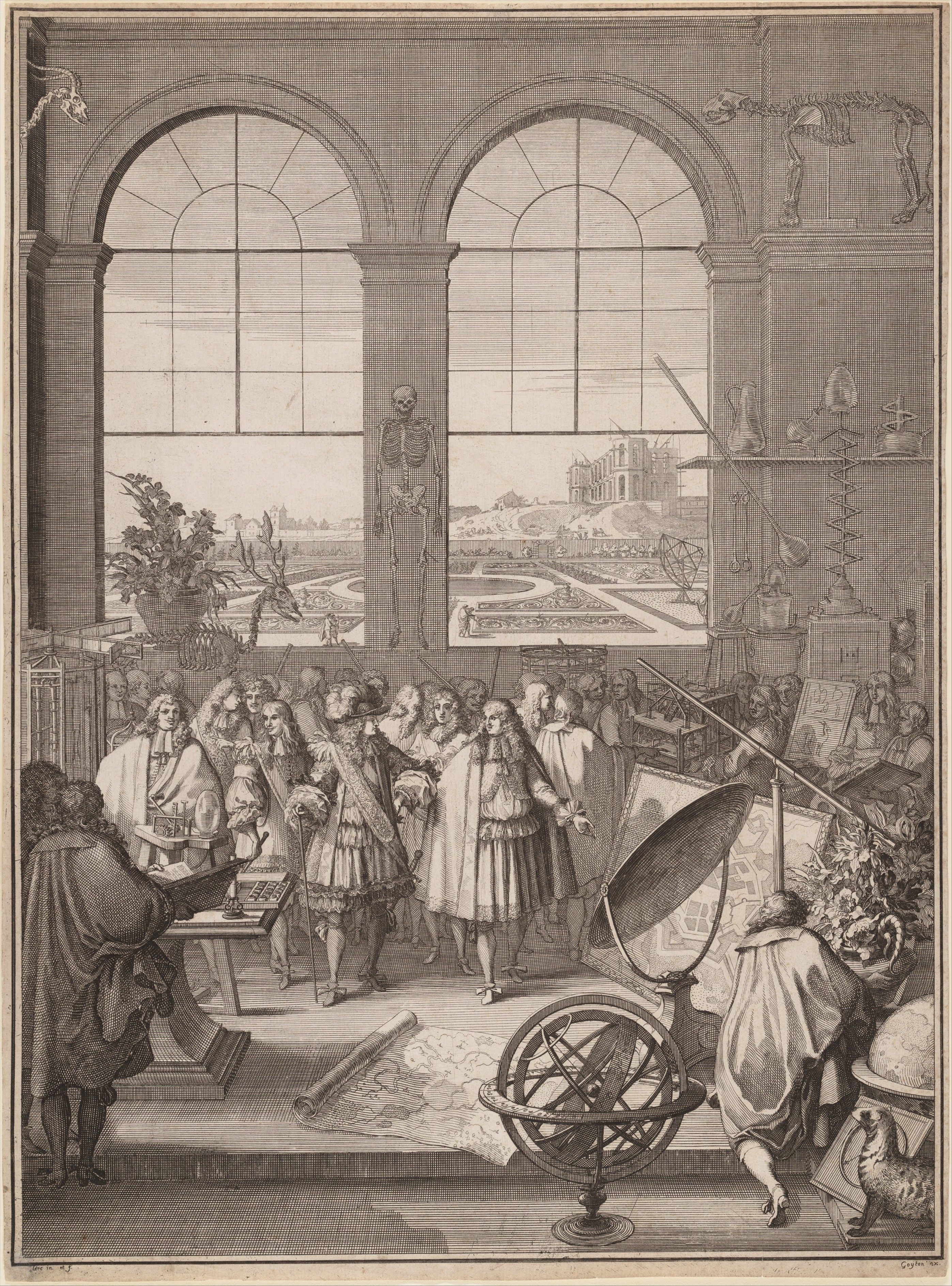 The Academy and Its Protectors. In the front are, from left to right, the prince de Condé, the duc d'Orléans, Louis XIV, and Colbert. Cassini, gesturing with his left hand, is between Condé and the king's brother, while Perrault stands between Louis and Colbert. engraved by Le Clerc